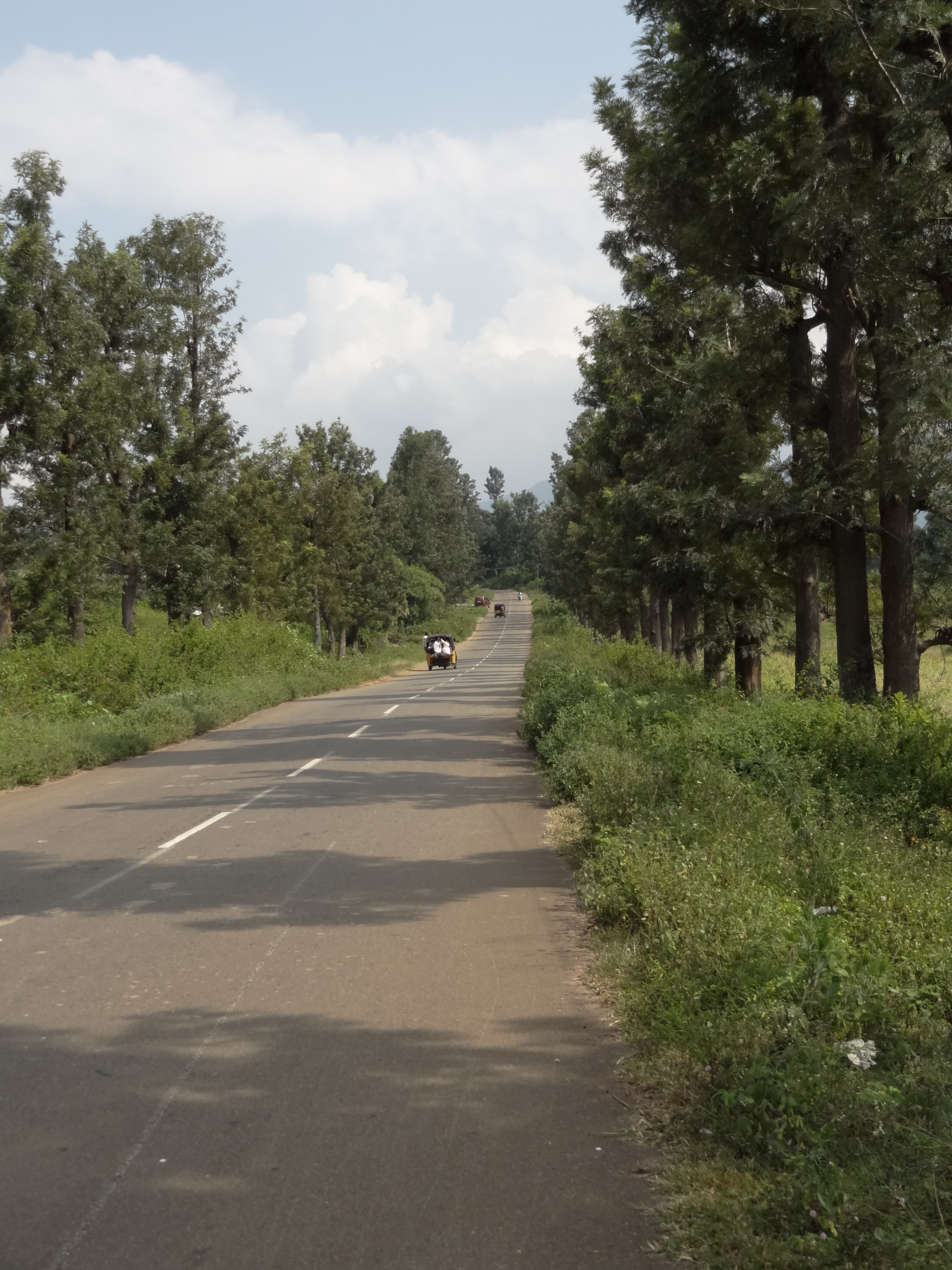 Road passing through Araku Valley